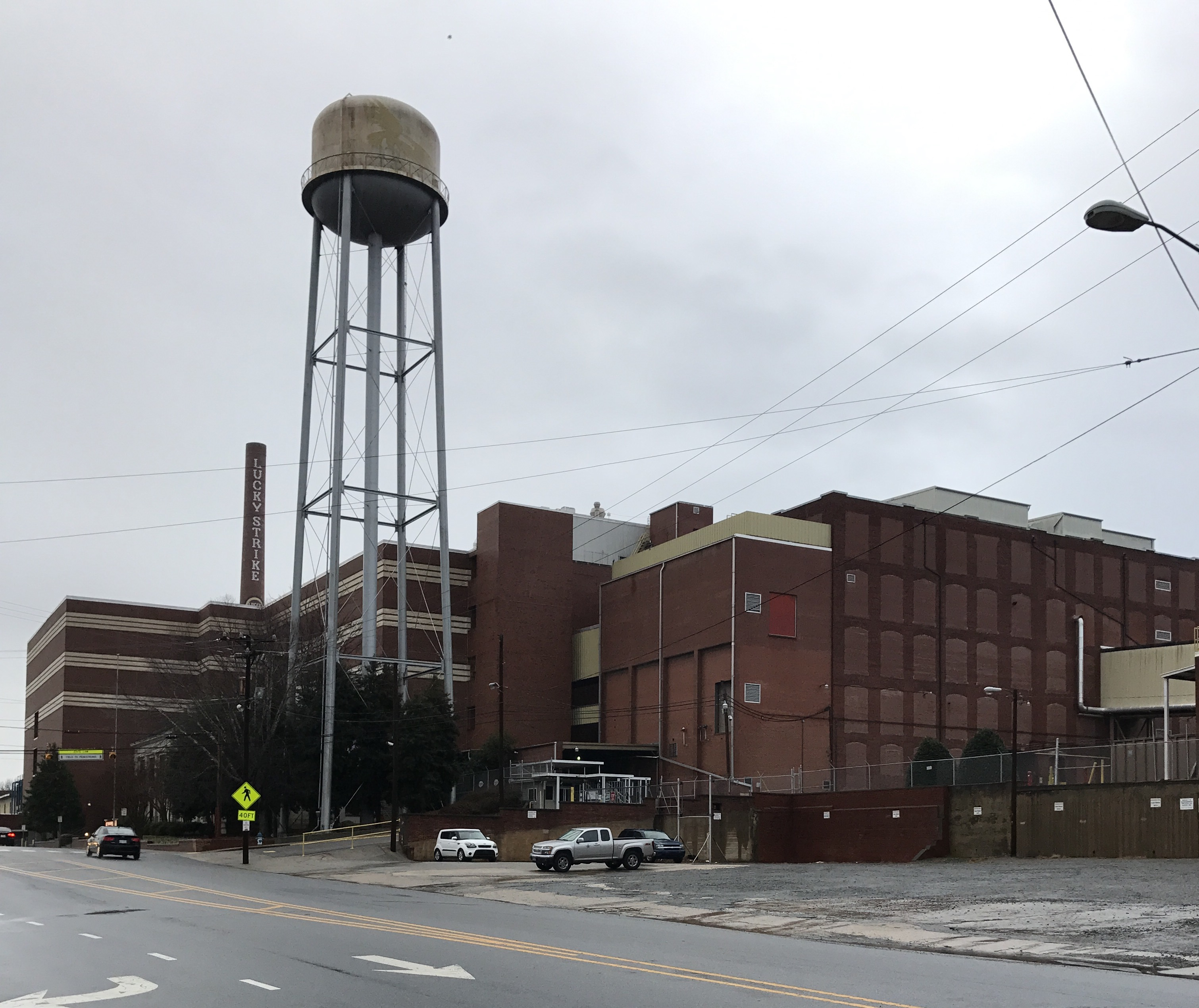 American Tobacco factory building with Lucky Strike livery on smoke stack, presently owned by Imperial Brands